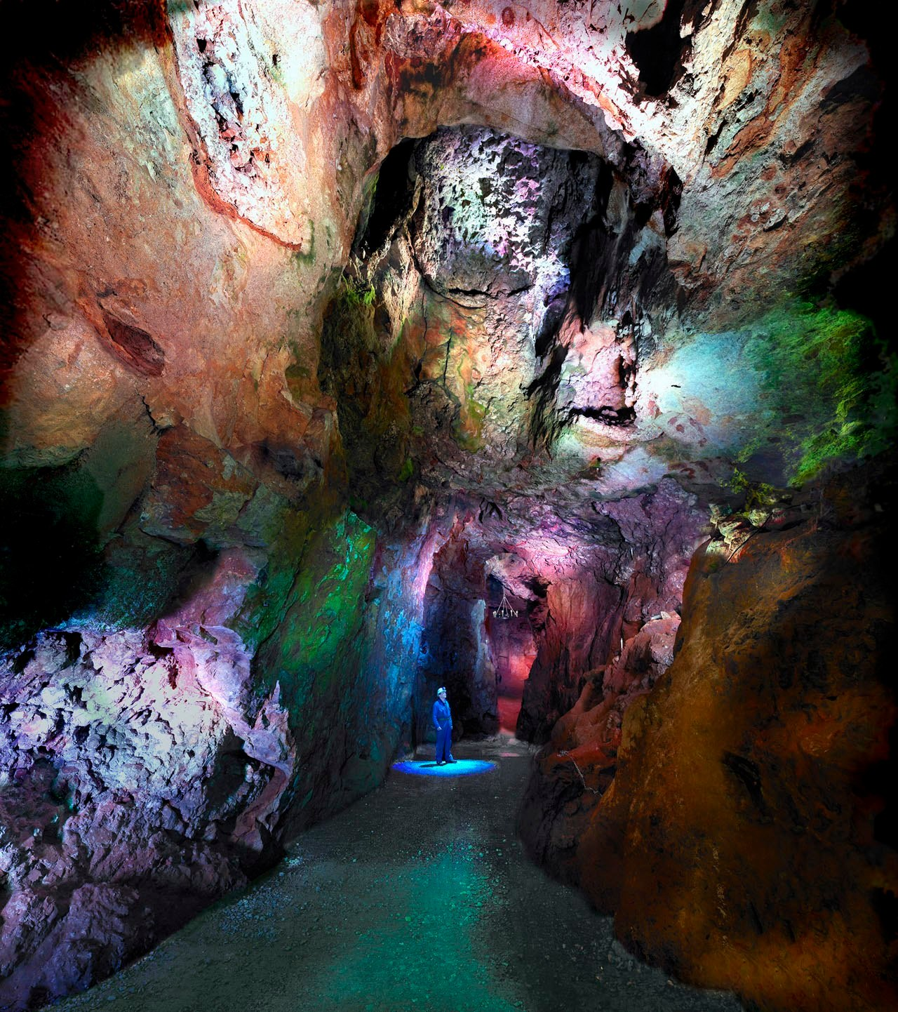 The Great Masson Cavern, floodlit with colour.